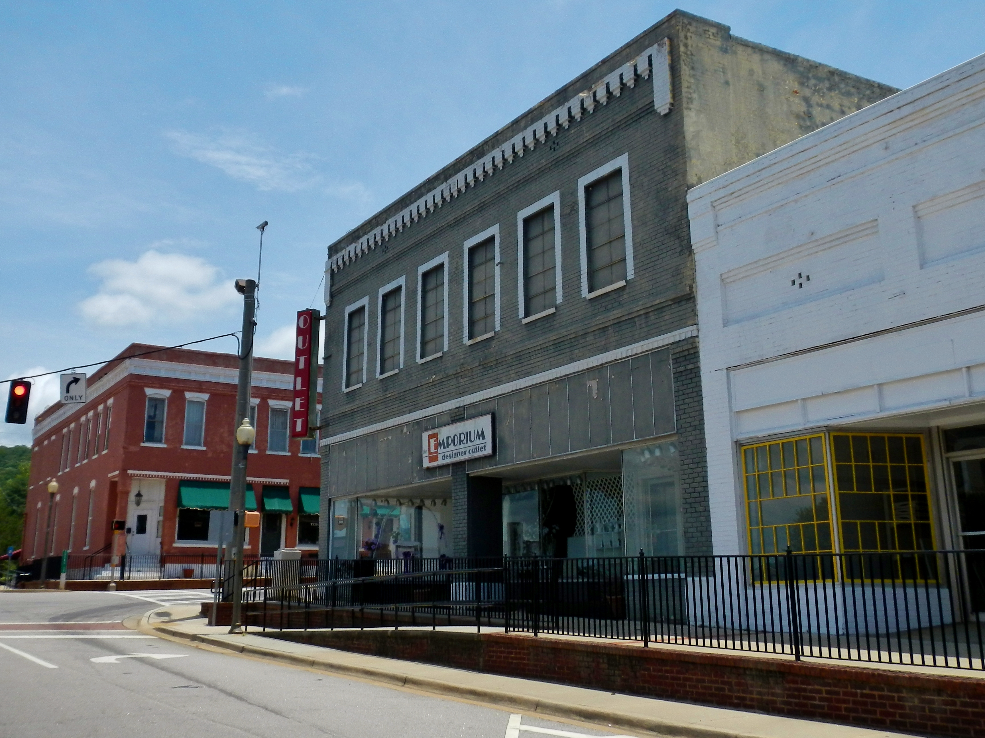 This is a photo of Manchester Georgia in 2012.